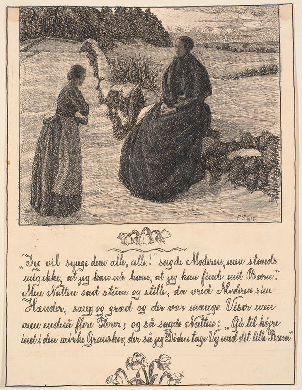 "Jeg vil synge dem alle, alle!, sagde Moderen", illustraton by Danish artist Fritz Syberg. Pen, pencil and brush. 524 by 401 mm. Illustration for Hans Christian Andersen's "Historien om en moder". Statens Museum for Kunst.